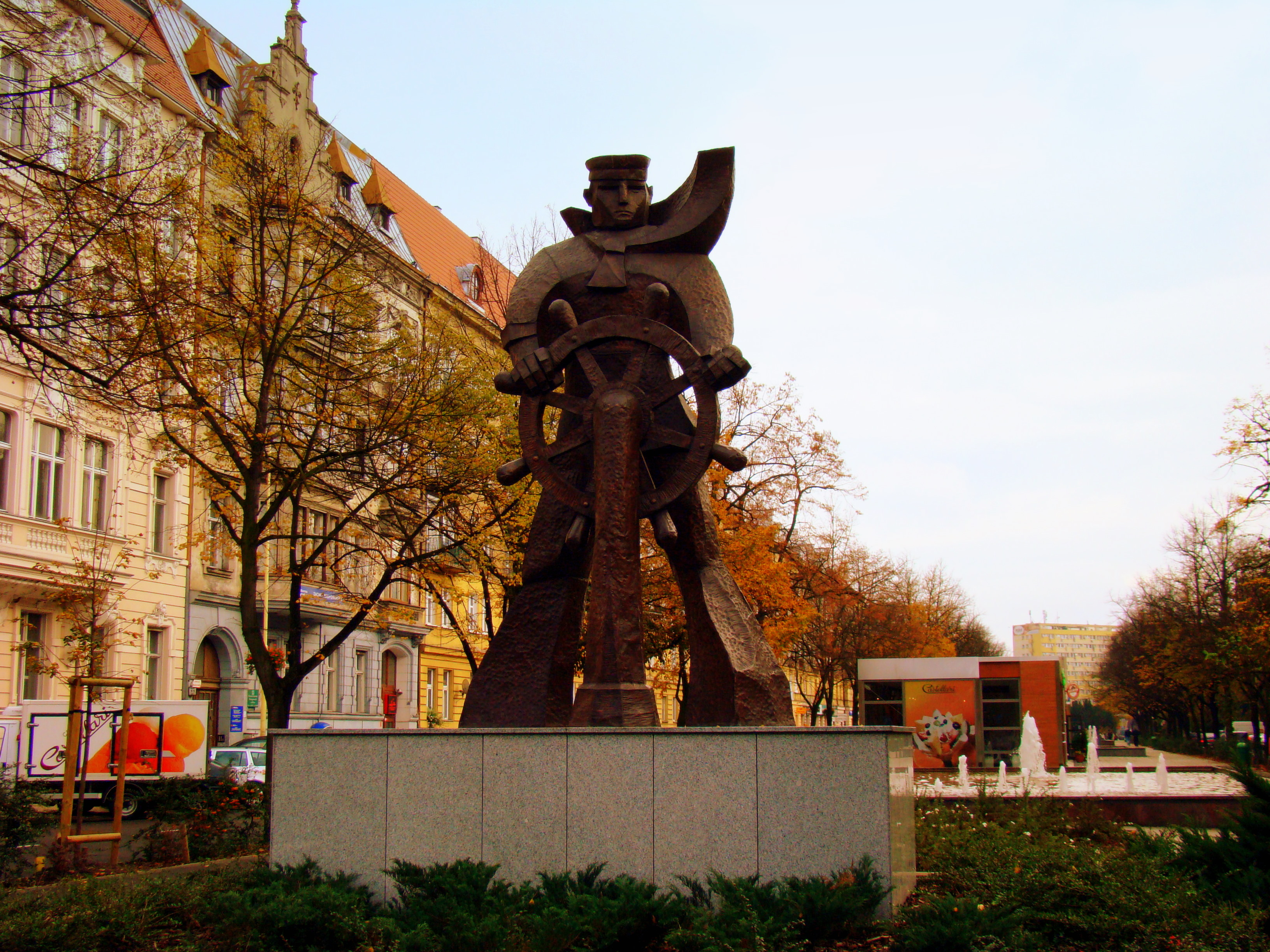 Monument to seaman by R. Chachulski, Szczecin, Poland